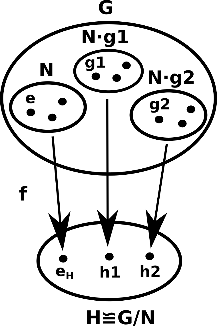 Diagram of the fundamental theorem on homomorphisms where f is an homomorphism, N is a normal subgroup of G and e is the identity element of G. Created with Inkscape as an SVG found at: exported to PNG because for some reason Wikimedia rendering gave broken arrows. My tutorial on the subject at